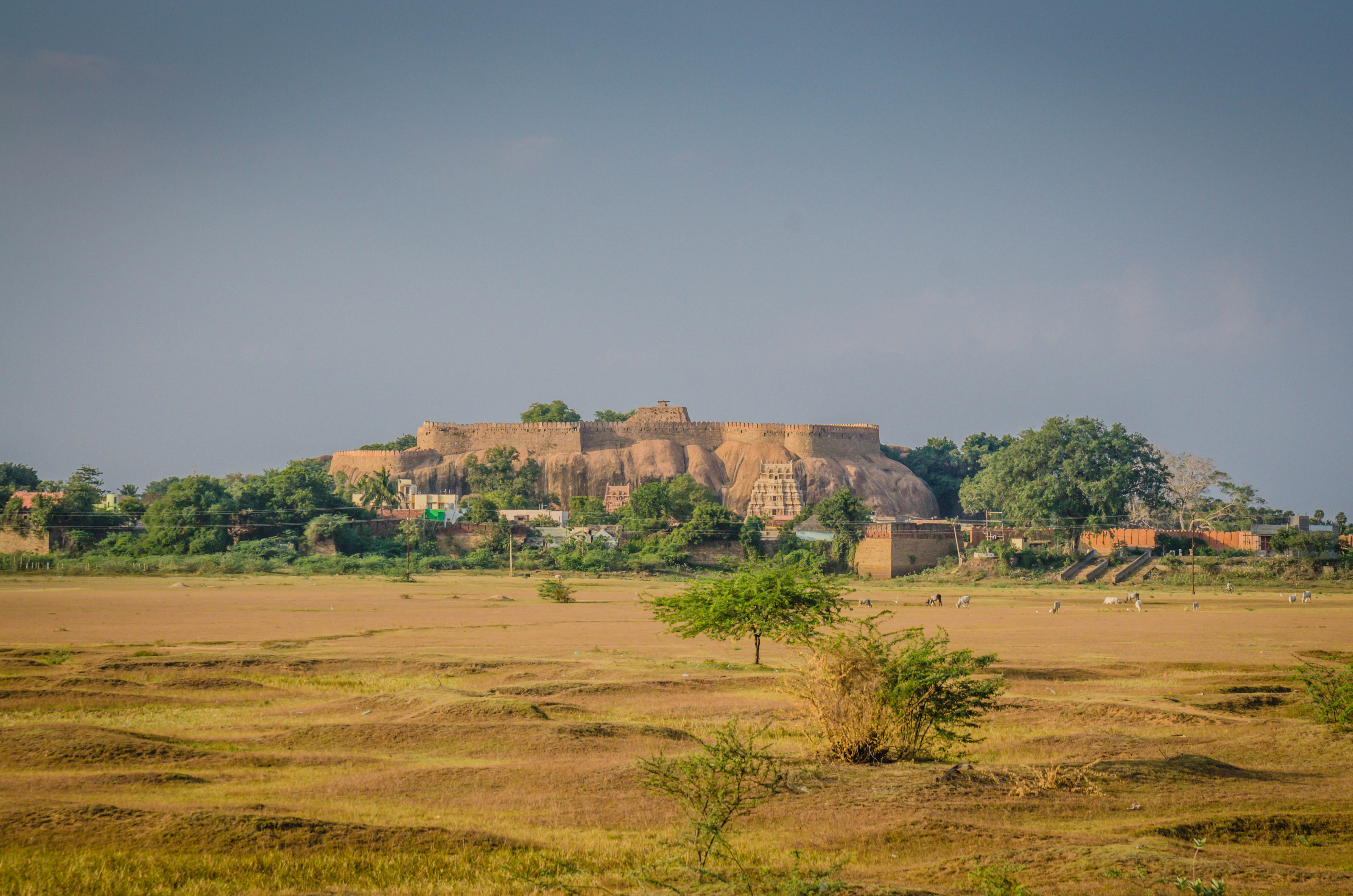 thirumayam fort